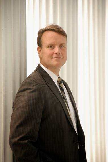 Photograph of Senator Michael O. Moore courtesy of Quinsigamond Community College.